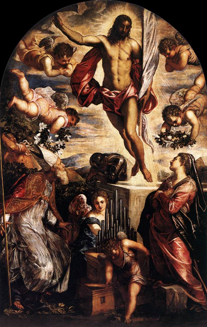 St Cassian (left) and St Cecilia (right) with Christ